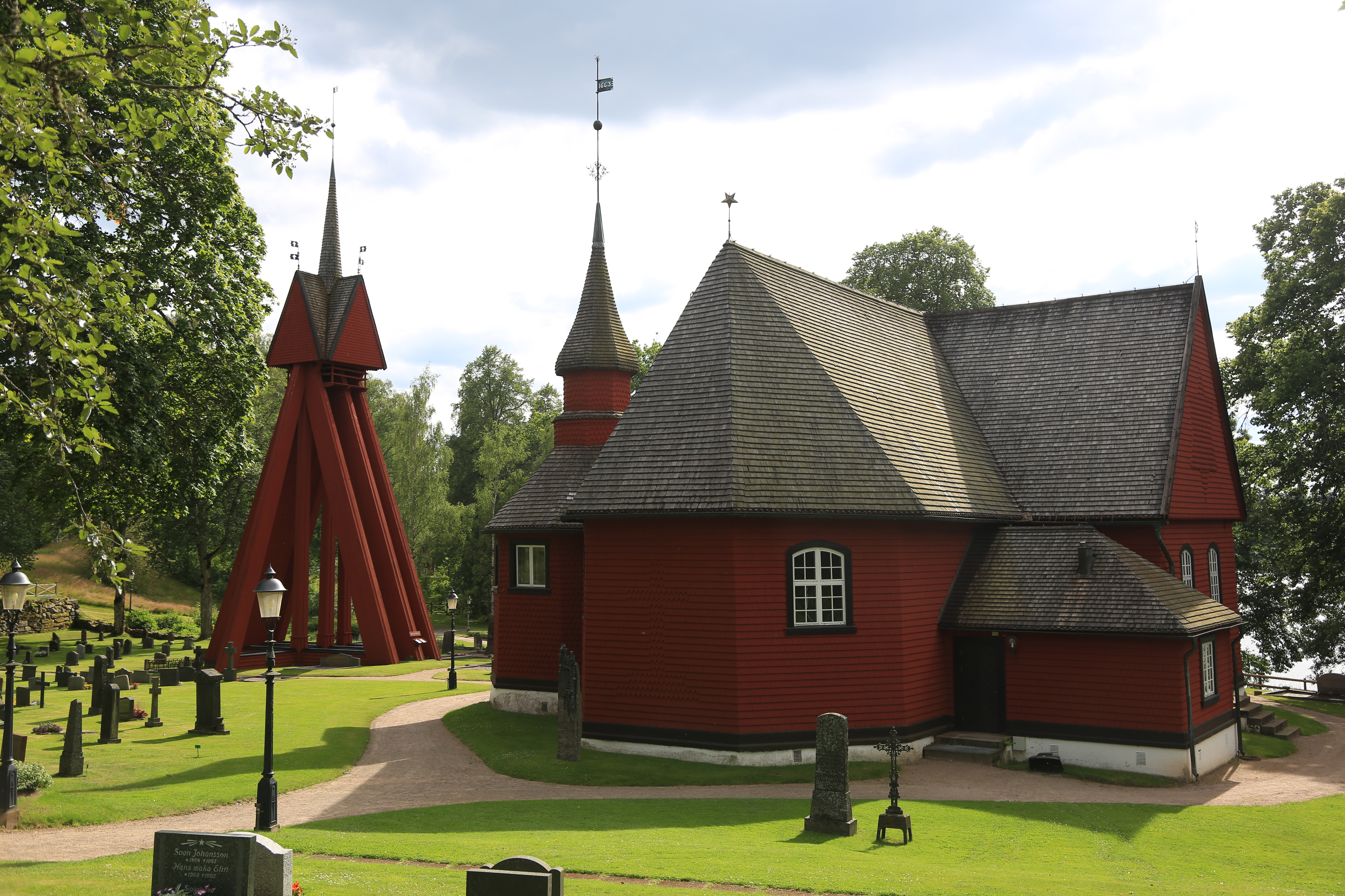 Bottnaryds church near Jönköping, Sweden